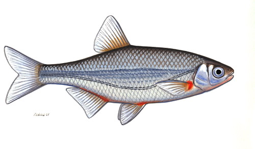 Tubenose goby (Alburnoides bipunctatus)